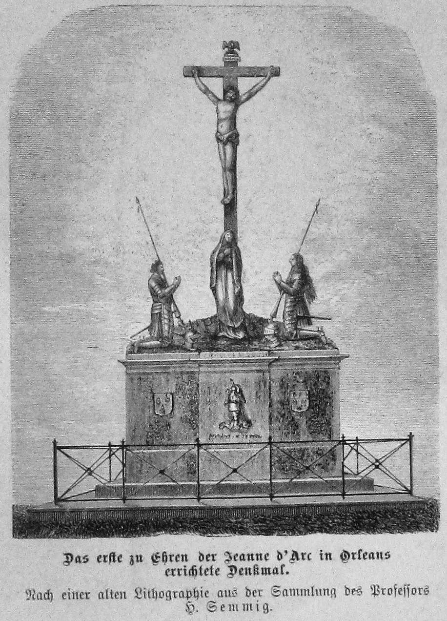 no caption